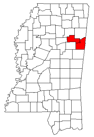 Map of Mississippi highlighting the Columbus-West Point Combined Statistical Area; created using the GIMP. Made by User:Acntx.